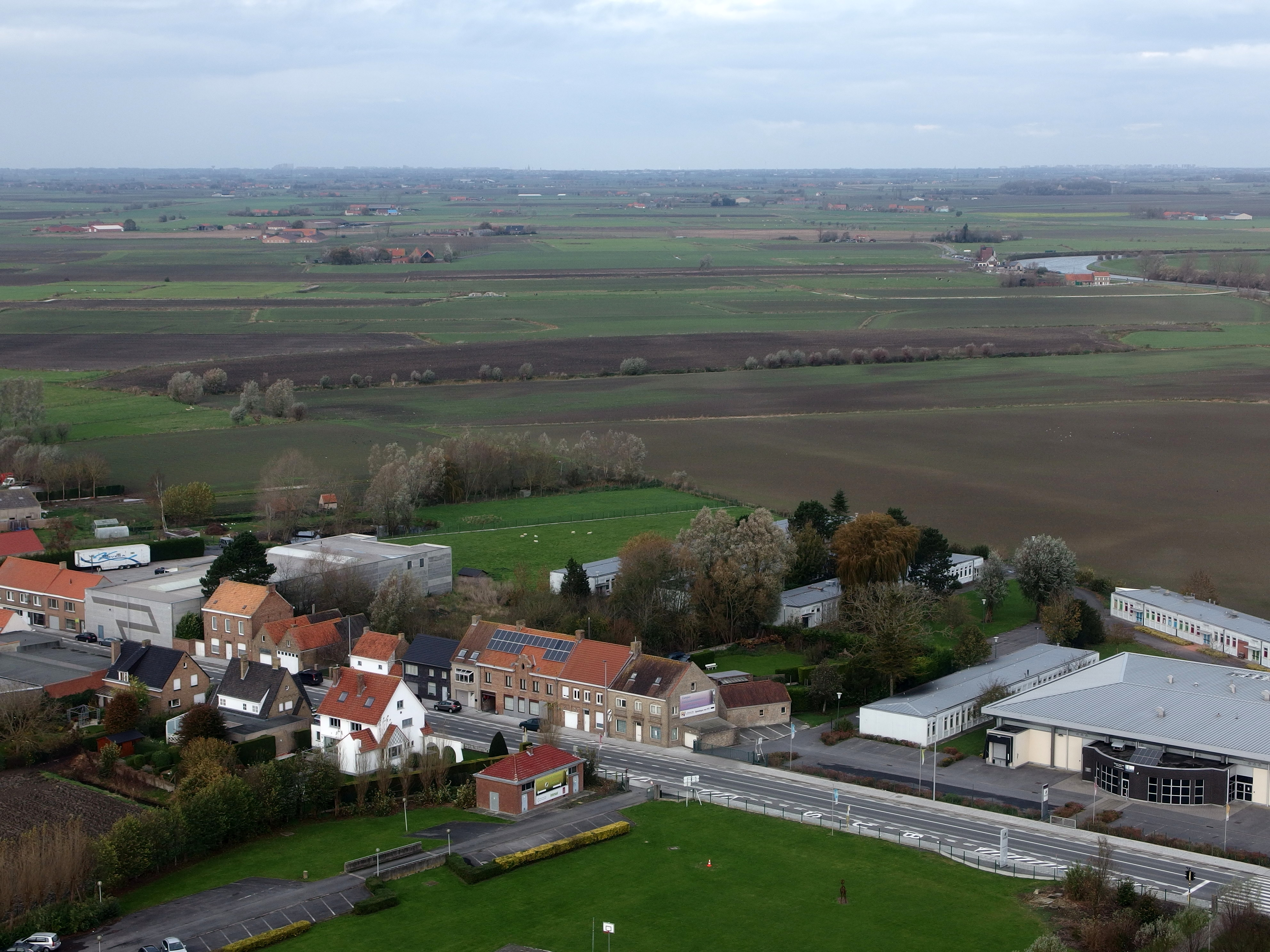 2014-11-09 Diksmuide and around, seen from IJzertoren.